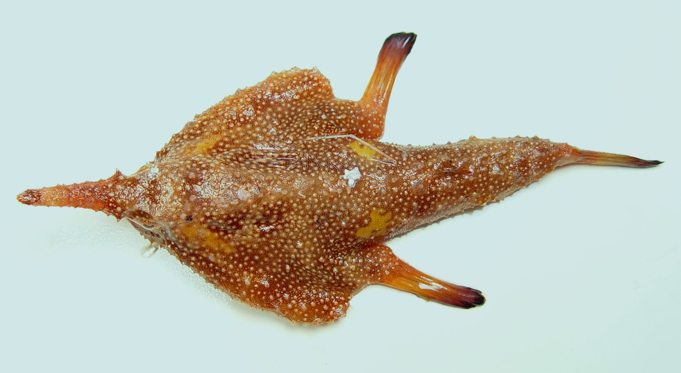 Longnose batfish (Ogcocephalus corniger)